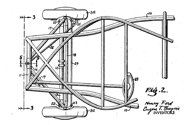 Automobile Chassis Construction; patent # 2,269, 452